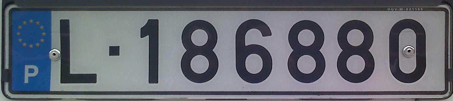 Portuguese trailer license plate of Lisbon